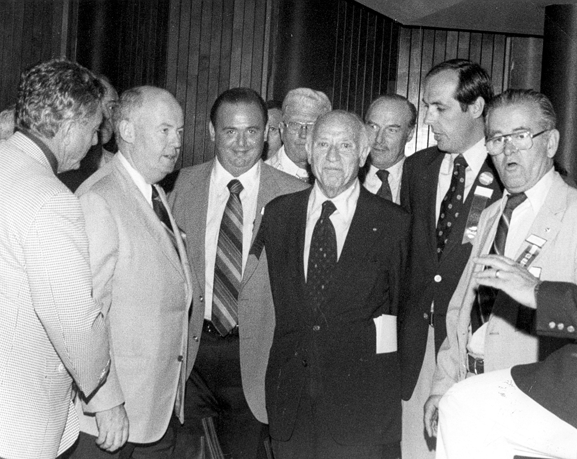 Senator Jacob K. Javits escorted by labor leaders Gus Bevona, John Sweeney, and other union leaders.